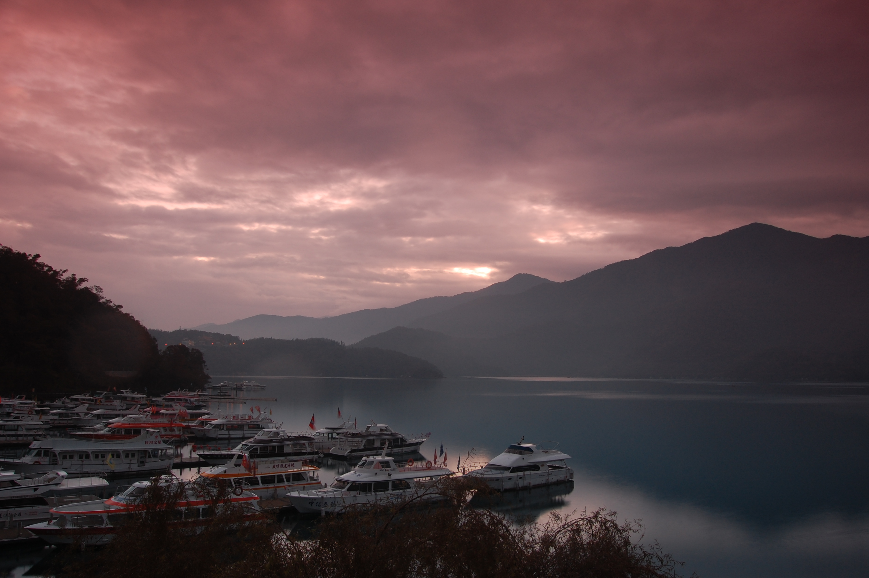 View of Sun Moon Lake From Shueishe Pier